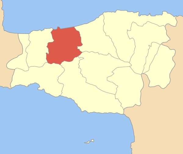 Locator map of Rethymno municipality (Δήμος Ρεθύμνου) in Rethymnon prefecture (Νομός Ρεθύμνου) in Greece.